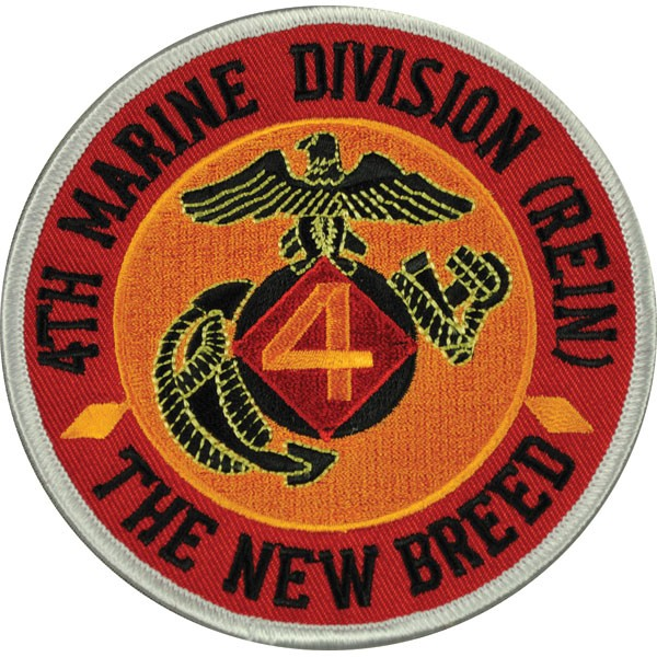 4th Marine Division Patch, Post-1966 (when the 4th Marine Division was designated as the Ground Combat Element (GCE) of the Marine Forces Reserve)